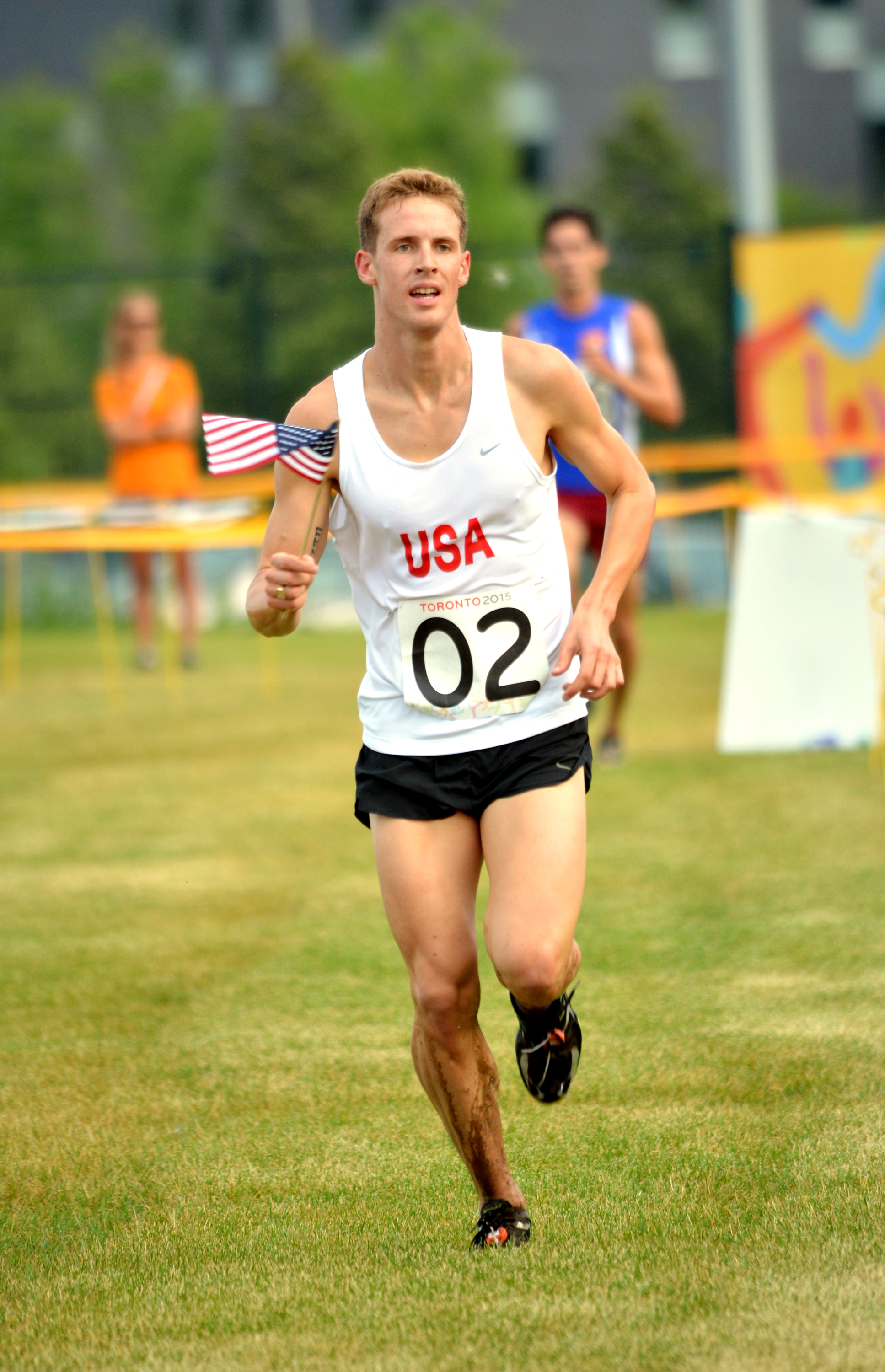 Spc. Nathan Schrimsher of the U.S. Army World Class Athlete Program earns a berth in the 2016 Olympic Games with a third-place finish in the men's Modern pentathlon event Sunday at the 2015 Pan American Games in Toronto. U.S. Army photo by Tim Hipps, IMCOM Public Affairs #WCAP #RoadToRio #TeamUSA #2015PanAmerican Games